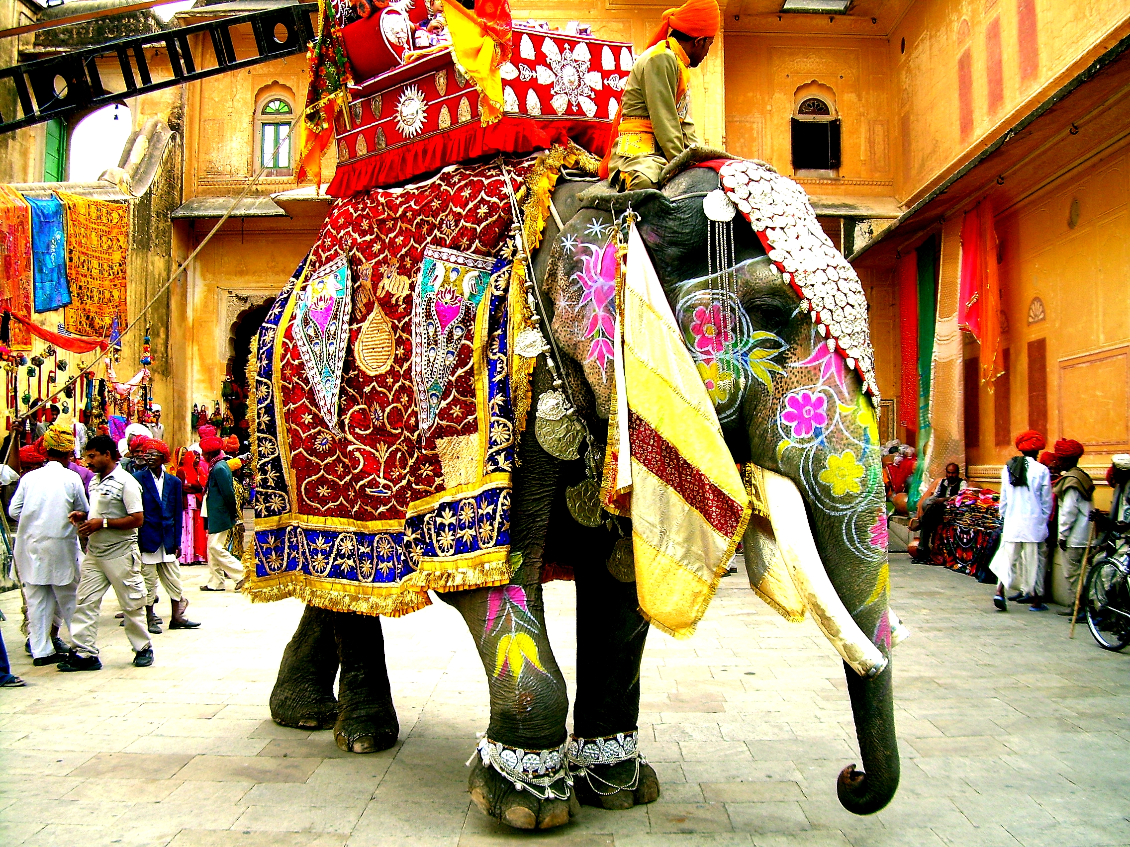 Decorated elephant in Jaipur, Rajasthan.